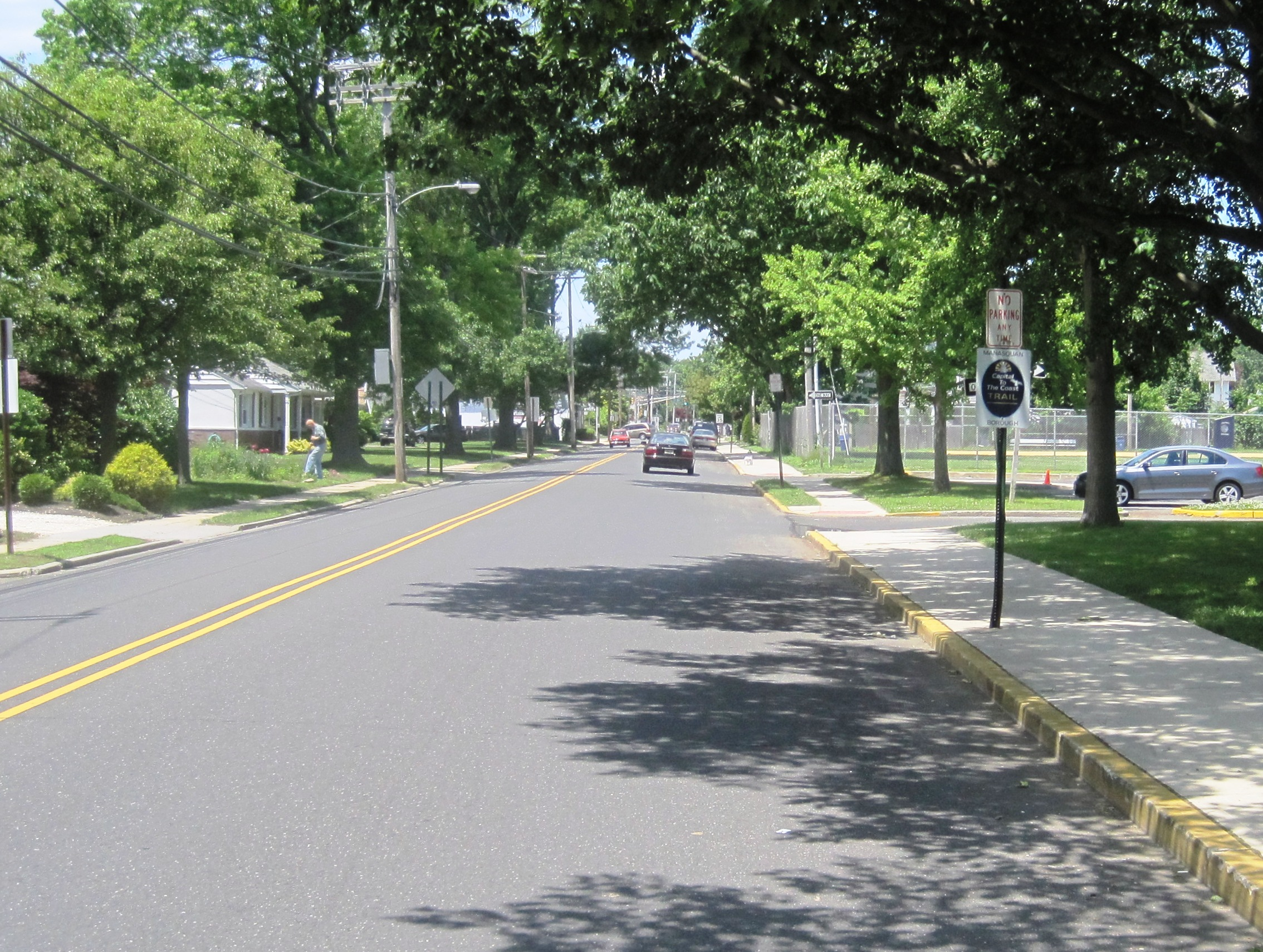 Photo showing westbound County Route 524 Spur (Atlantic Avenue) near its eastern terminus in Manasquan, New Jersey.